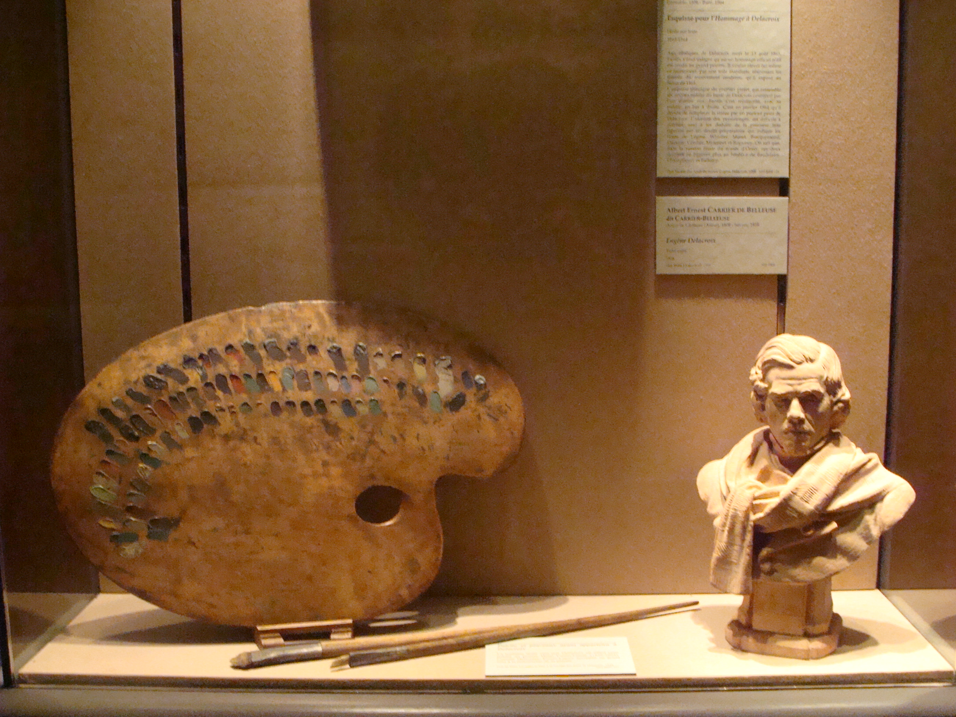 Delacroix' s palette, brushes and plaster bust